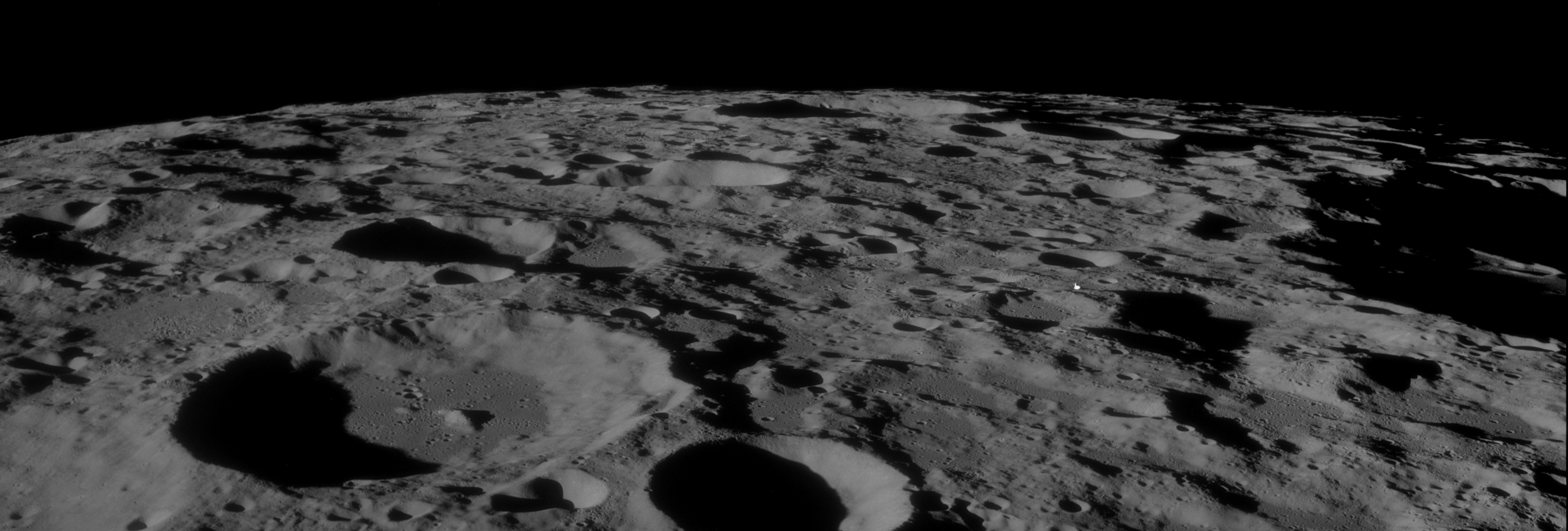 Oblique view of western Dirichlet–Jackson Basin, on the far side of the moon. Large crater in left foreground is Lebedinskiy, and Raimond is near central horizon. Cropped from original.